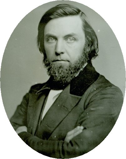 William Francis Channing formal portrait 1847